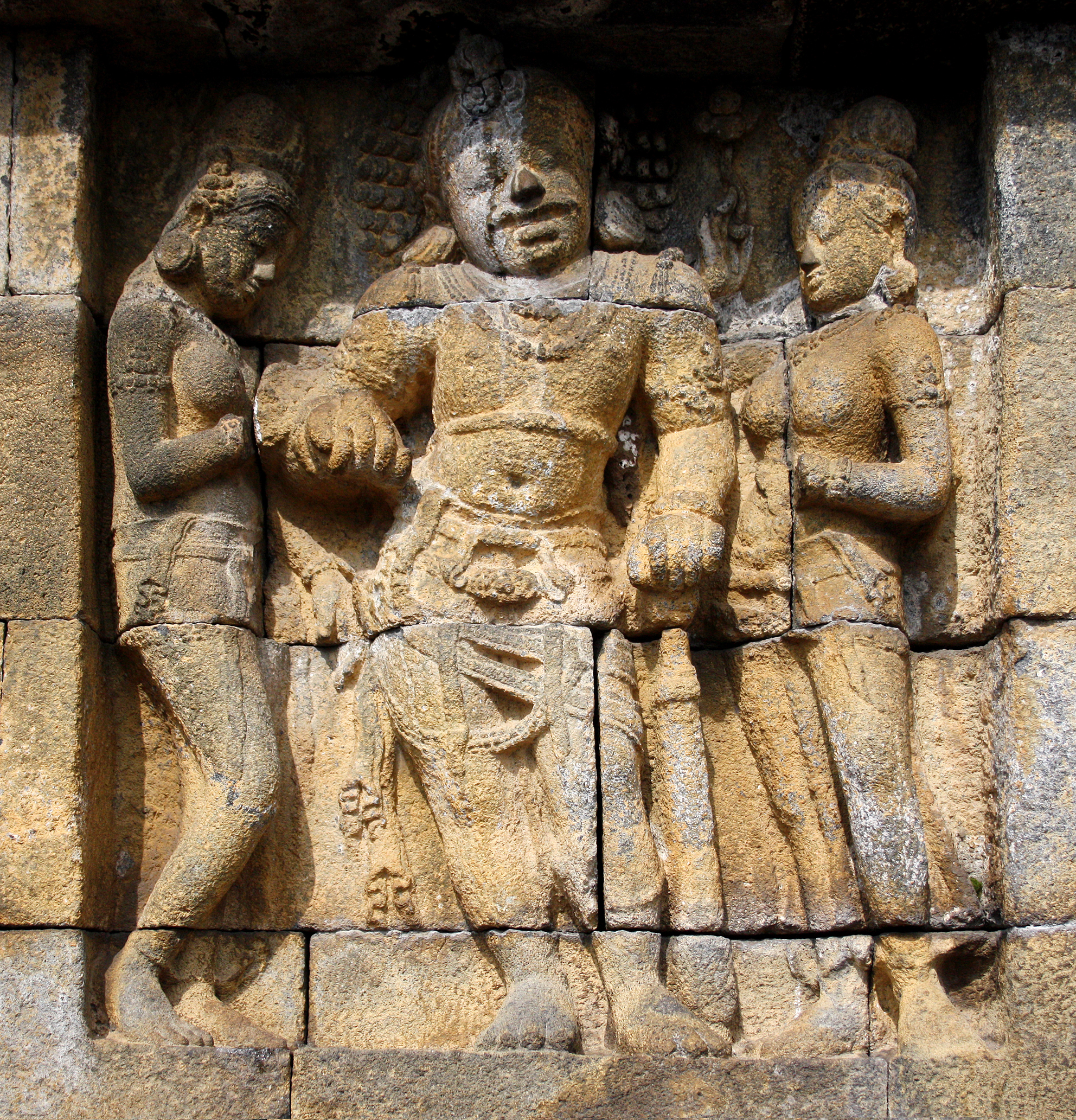 The guarding figure asura giant dvarapala holding mace flanked by two apsaras. The image of asura being pacified by two apsaras probably symbolize the teaching of buddhism might even pacify the fearsome asura giant and put them in righteous path. The bas-relief of lower outer wall of Borobudur separating Kamadhatu and Rupadhatu realm. 8th century Central Java, Indonesia.Unknown dwarapala raksasa asura penjaga memegang gada tengah diapit dua apsara. relief borobudur di dinding luar bawah antara kamadhatu dan rupadhatu. abad ke-8 jawa tengah, indonesia.